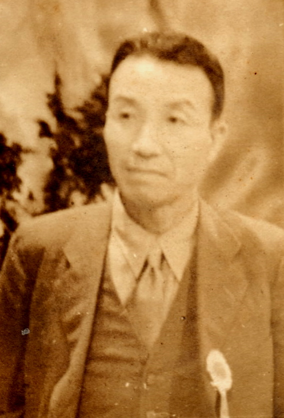 Portrait of Goro Yamamoto